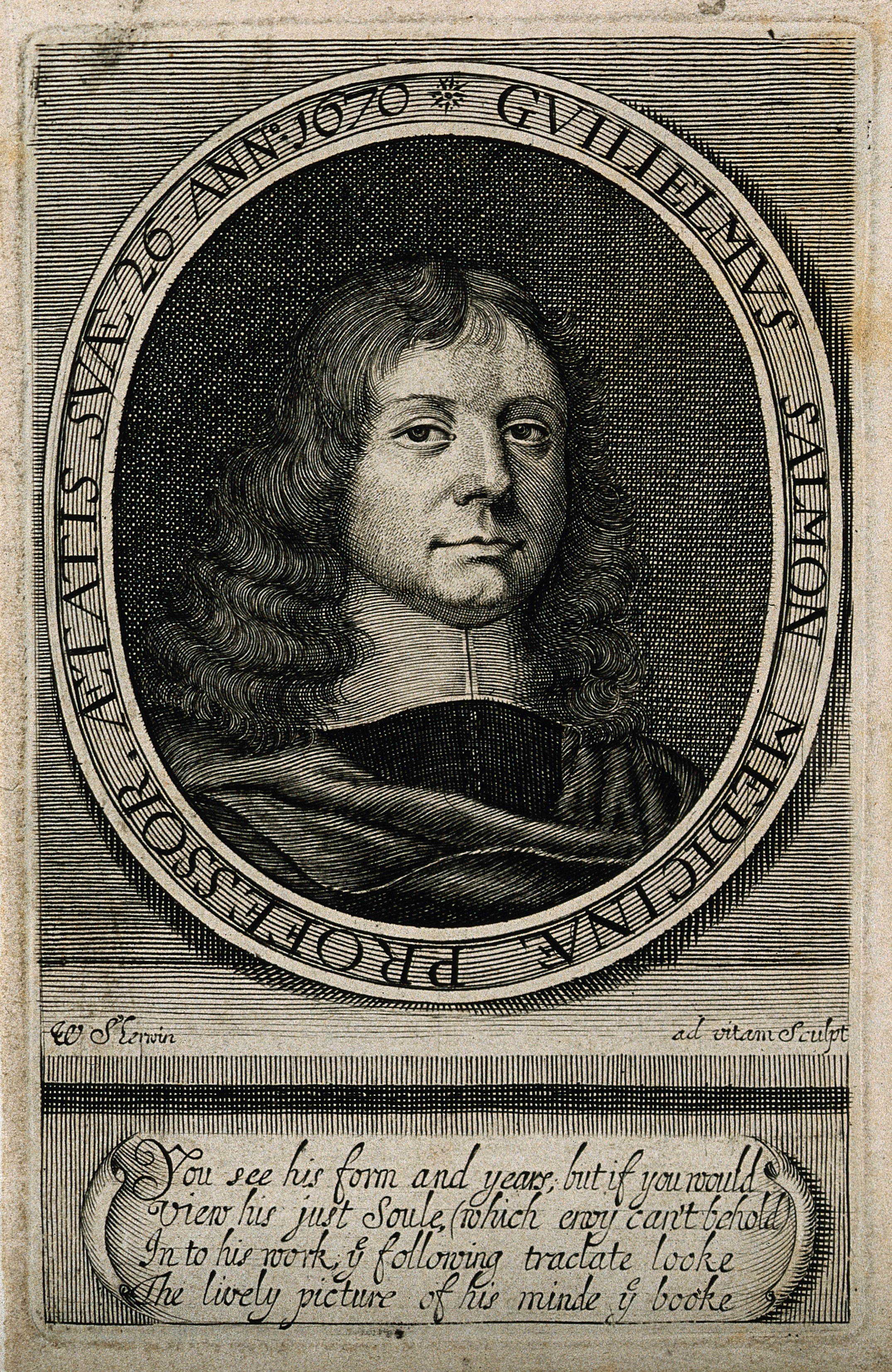 William Salmon. Line engraving by W. Sherwin, 1671, after himself. Iconographic Collections Keywords: portrait prints; William Salmon; engravings